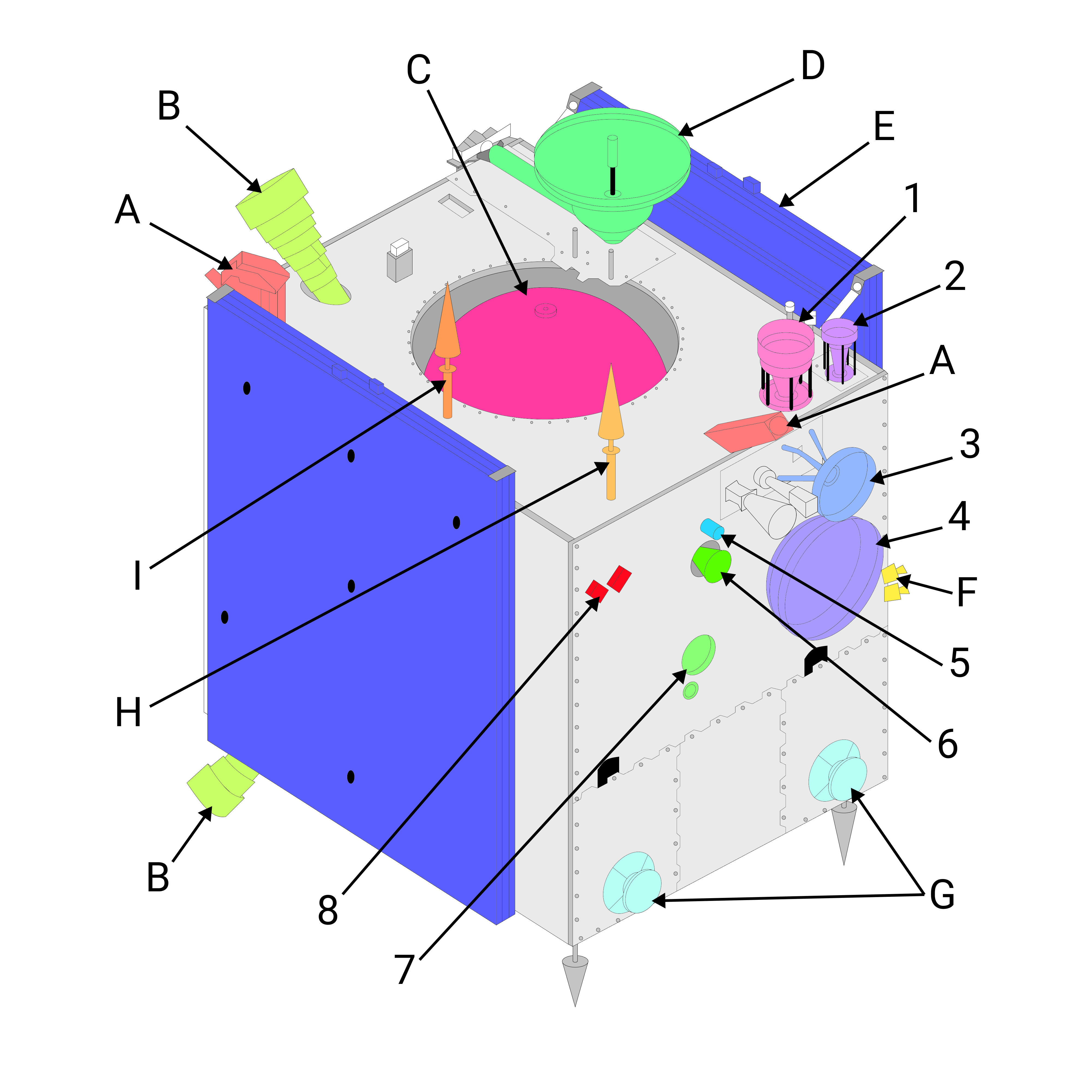 A captioned schema of the Chinese Chang'e 1 probe in launch configuration. A : Sun sensor; B : Star tracker; C : Fuel tank; D : High gain antenna; E : solar panels; F : Attitude thrusters; G : UV sensors; H : Transmission low gain antenna; I : Reception low gain antenna; 1 : Low frequency calibration antenna of CELMS; 2 : High frequency calibration antenna of CELMS; 3 : High frequency observation antenna of CELMS; 4 : Low frequency observation antenna of CELMS; 5 : CCD camera; 6 : IIM sensor; 7 : LAM altimeter; 8 : XRS X-Ray spectrometer